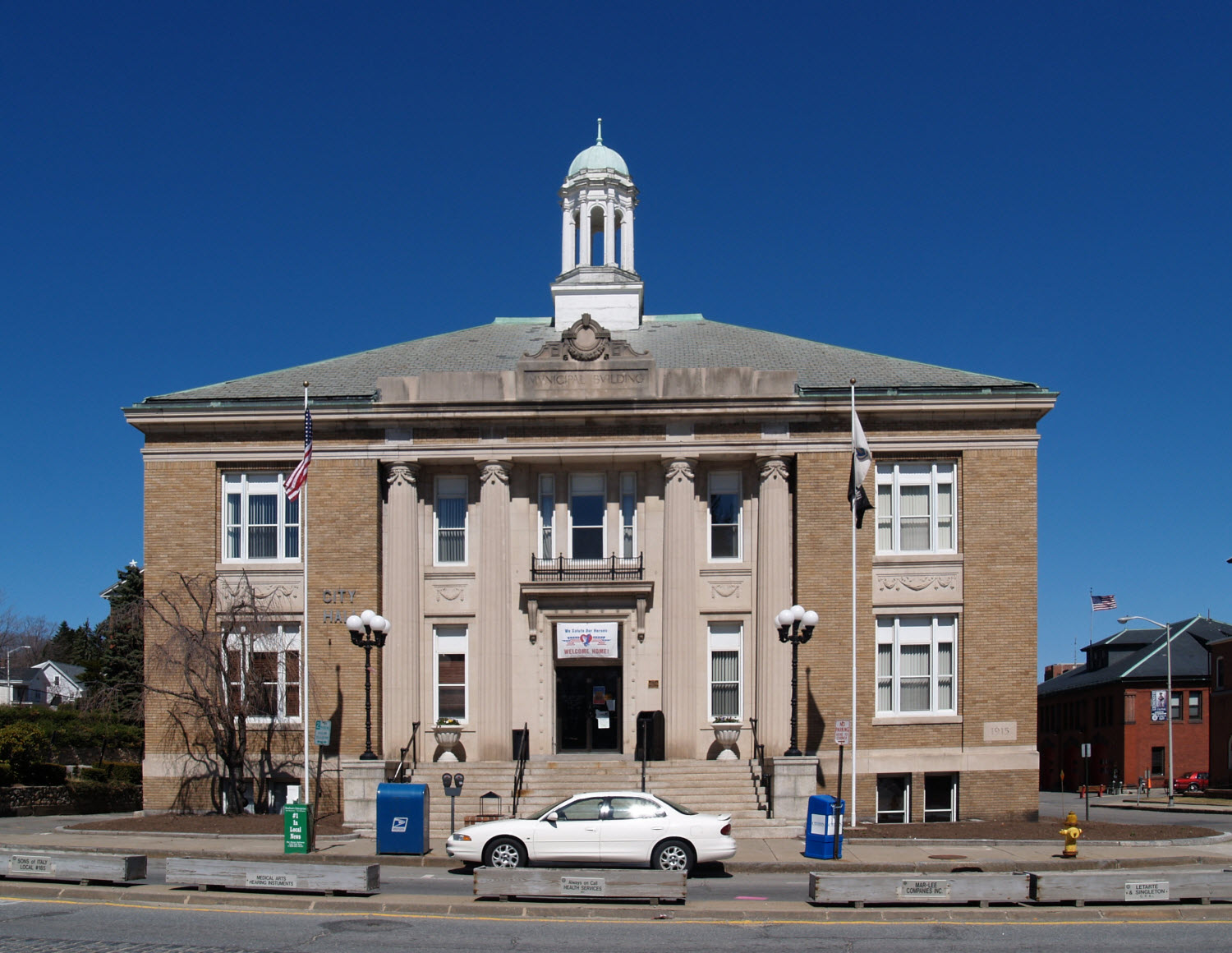 City Hall, Leominster, Massachusetts